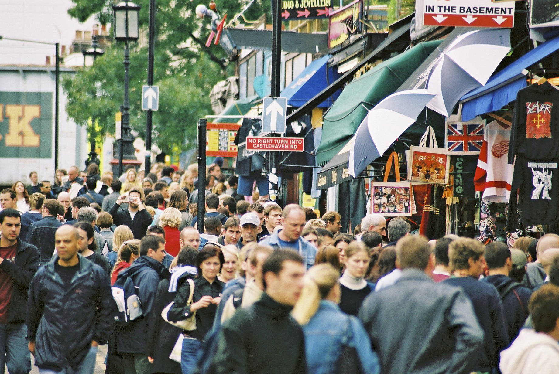 Camden Town London United Kingdom